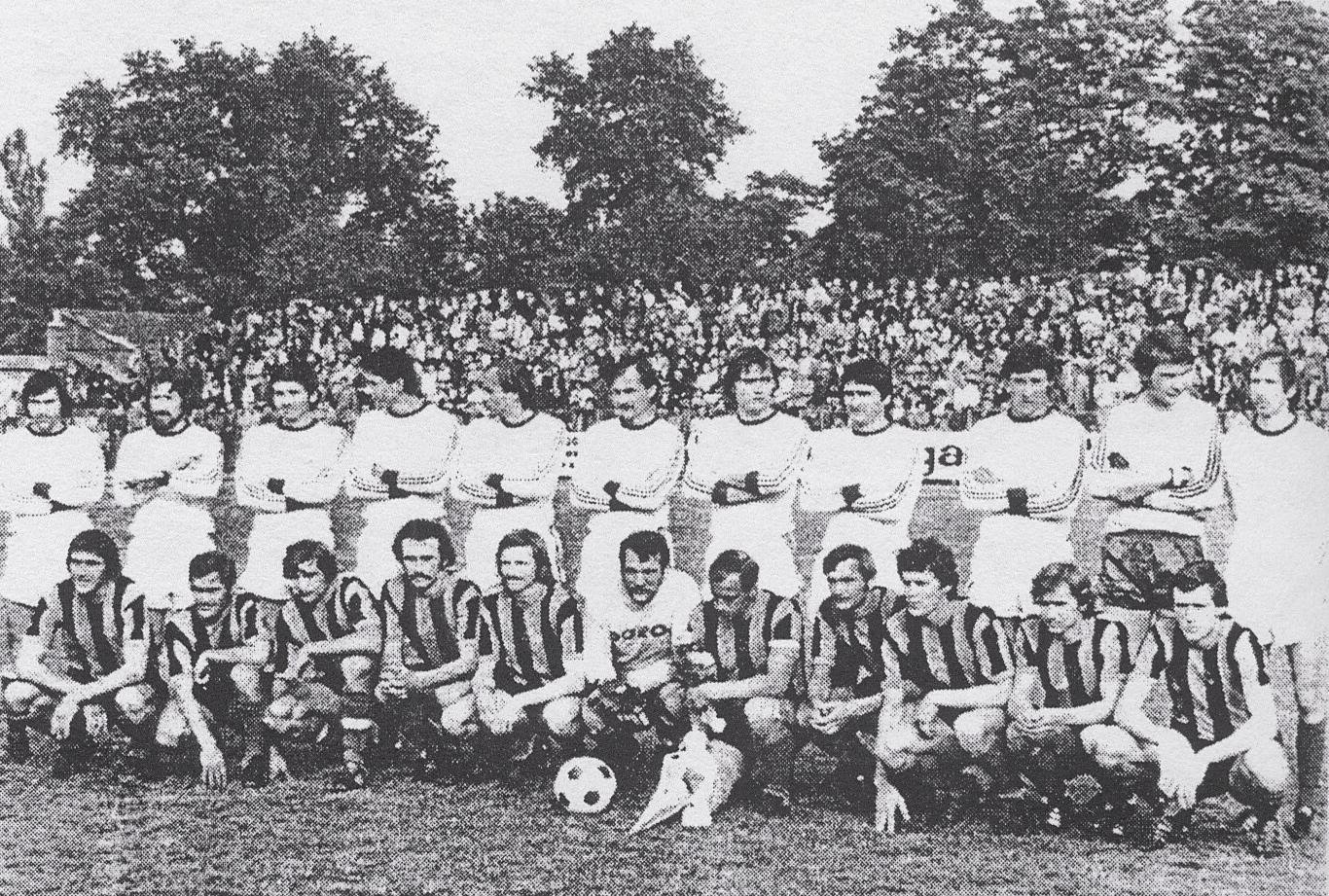 The last first class match of Dorog in 1977